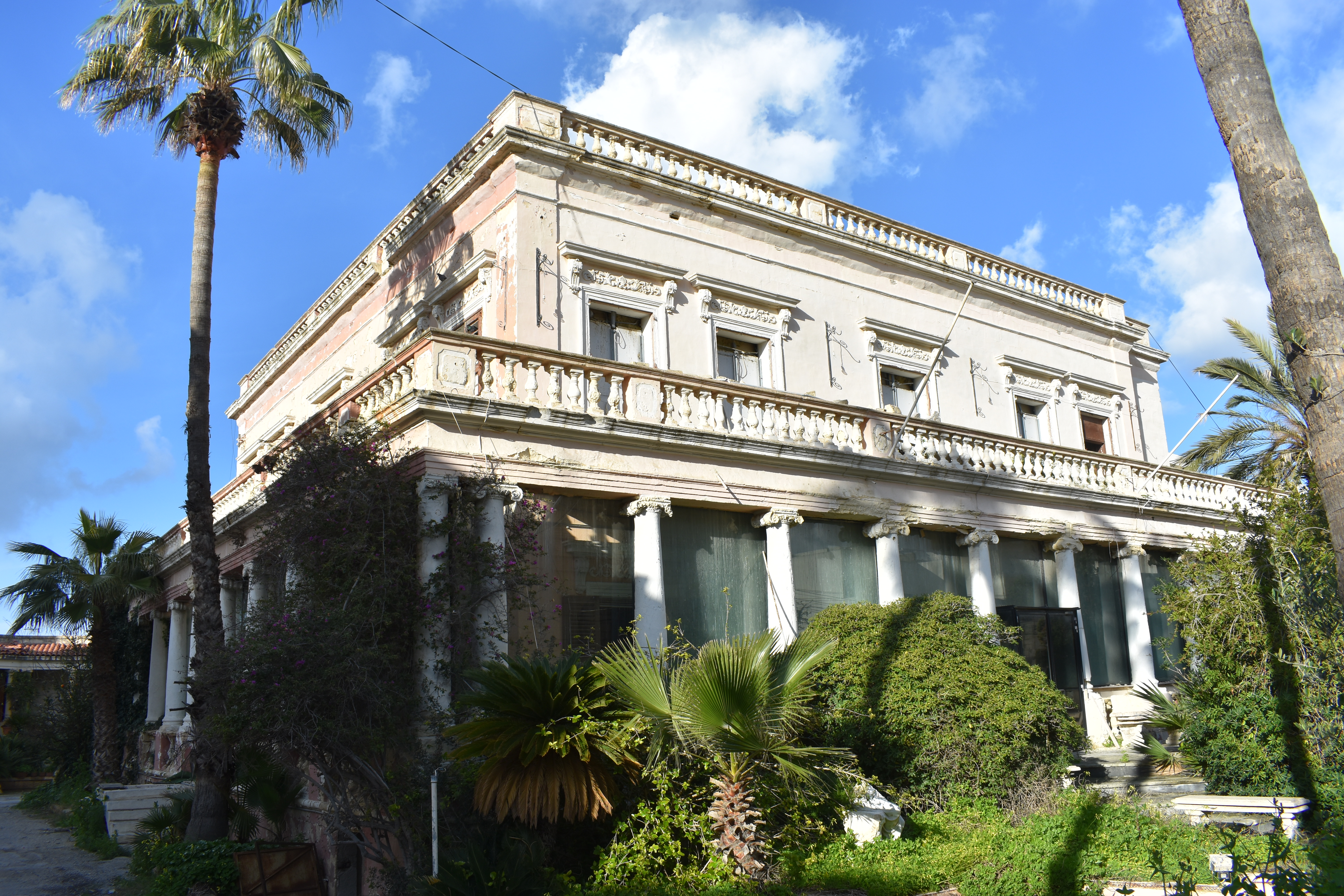 Palazzo Pescatore and Gardens This media is about Maltese cultural property with inventory number 01225.